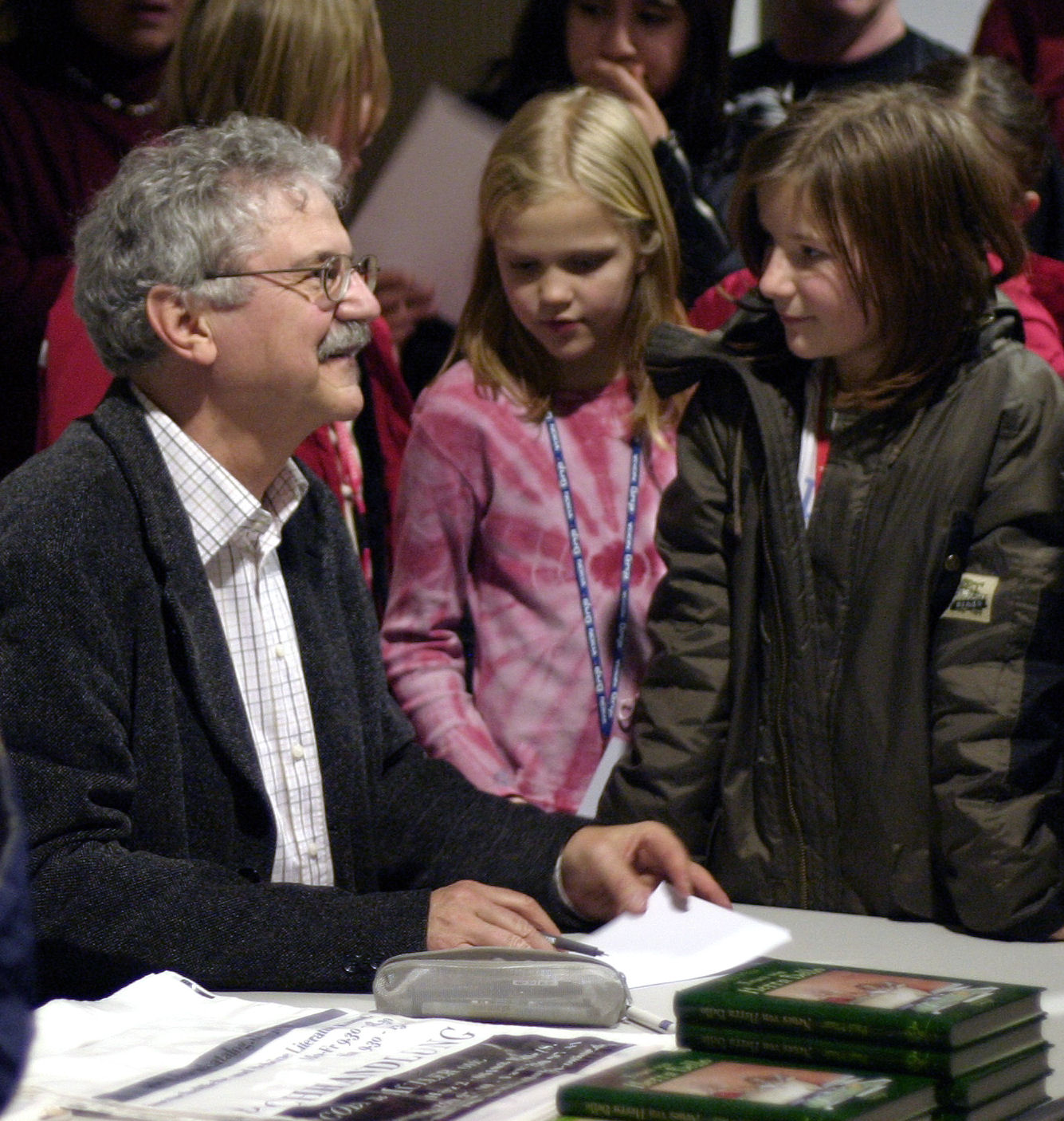 The author Paul Maar, Germany